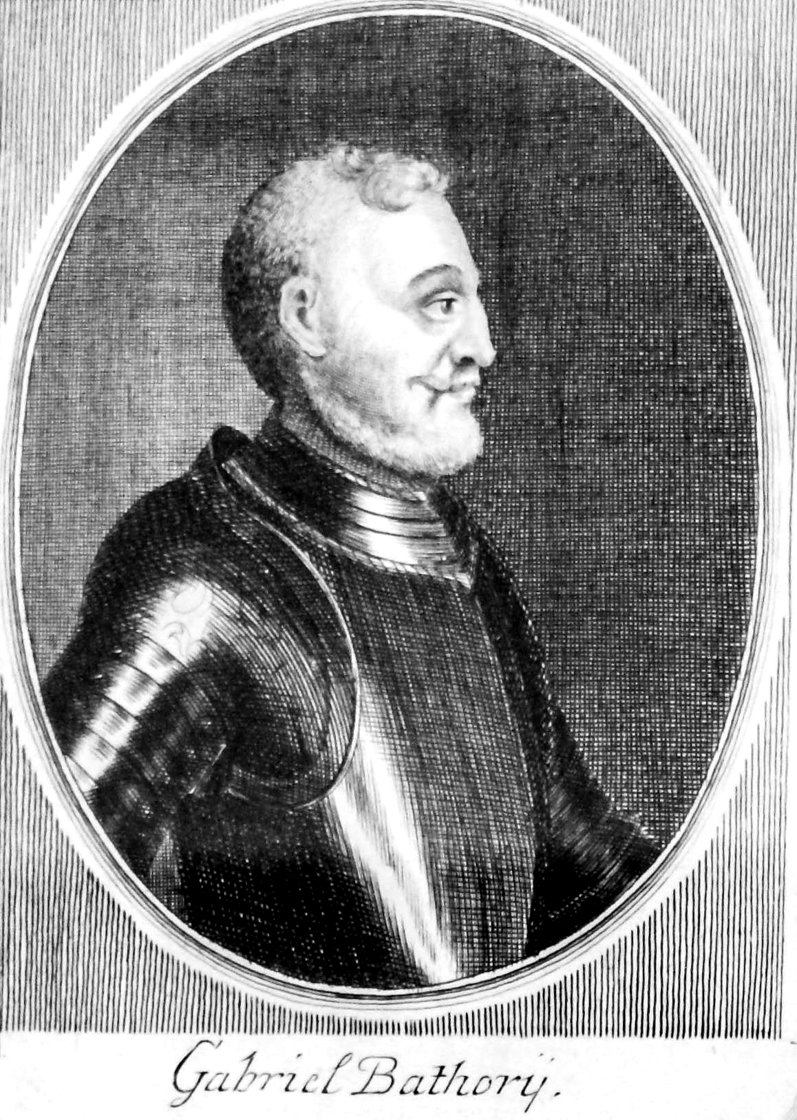 Prince Gábor Báthori of Transylvania